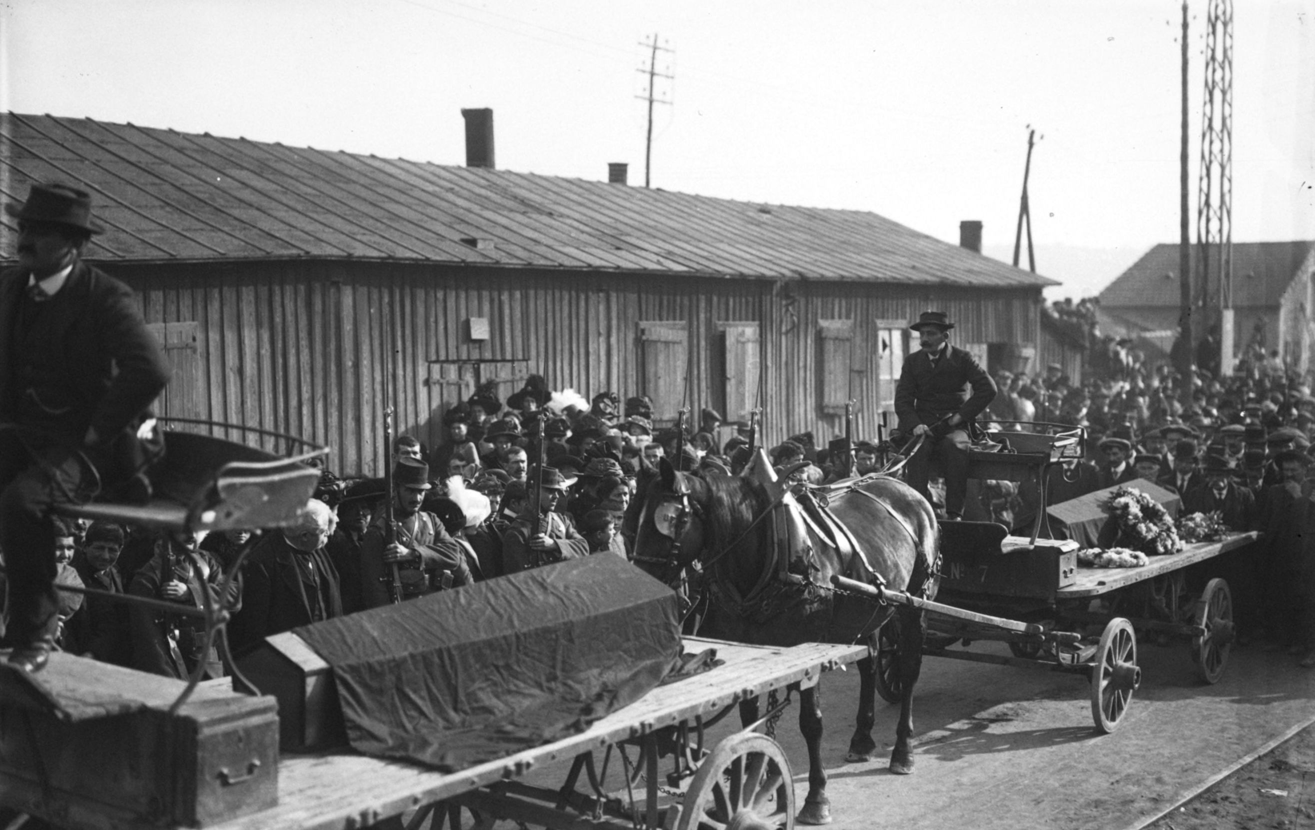 Picture of the burial of 24 miners at Sant Martin de Valgalga (Occitania)